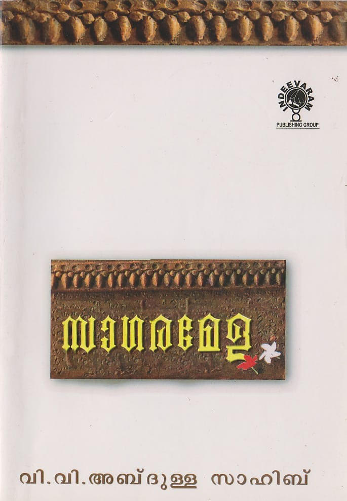 Sagaramela